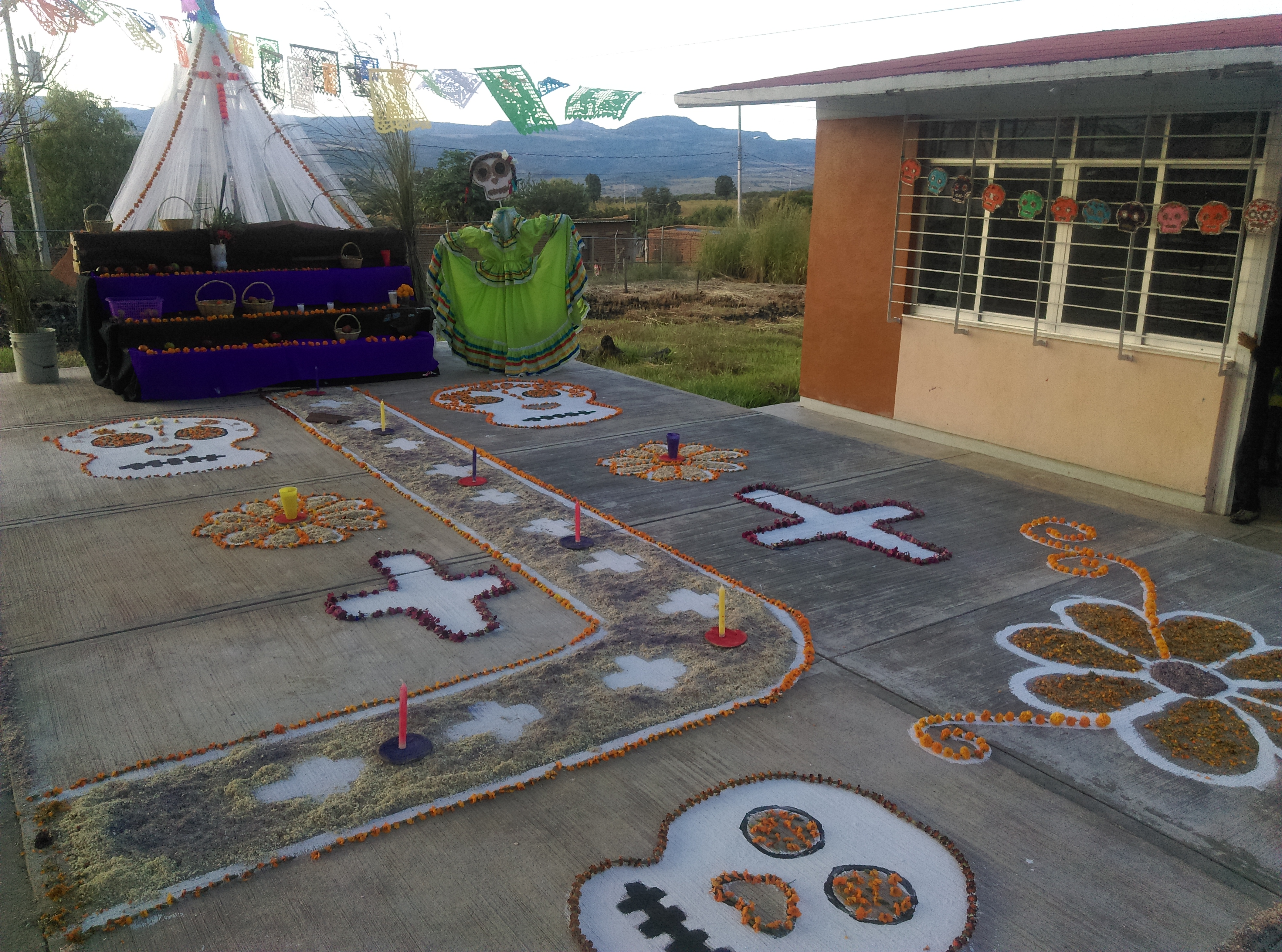 This photo has been taken in the country: Mexico